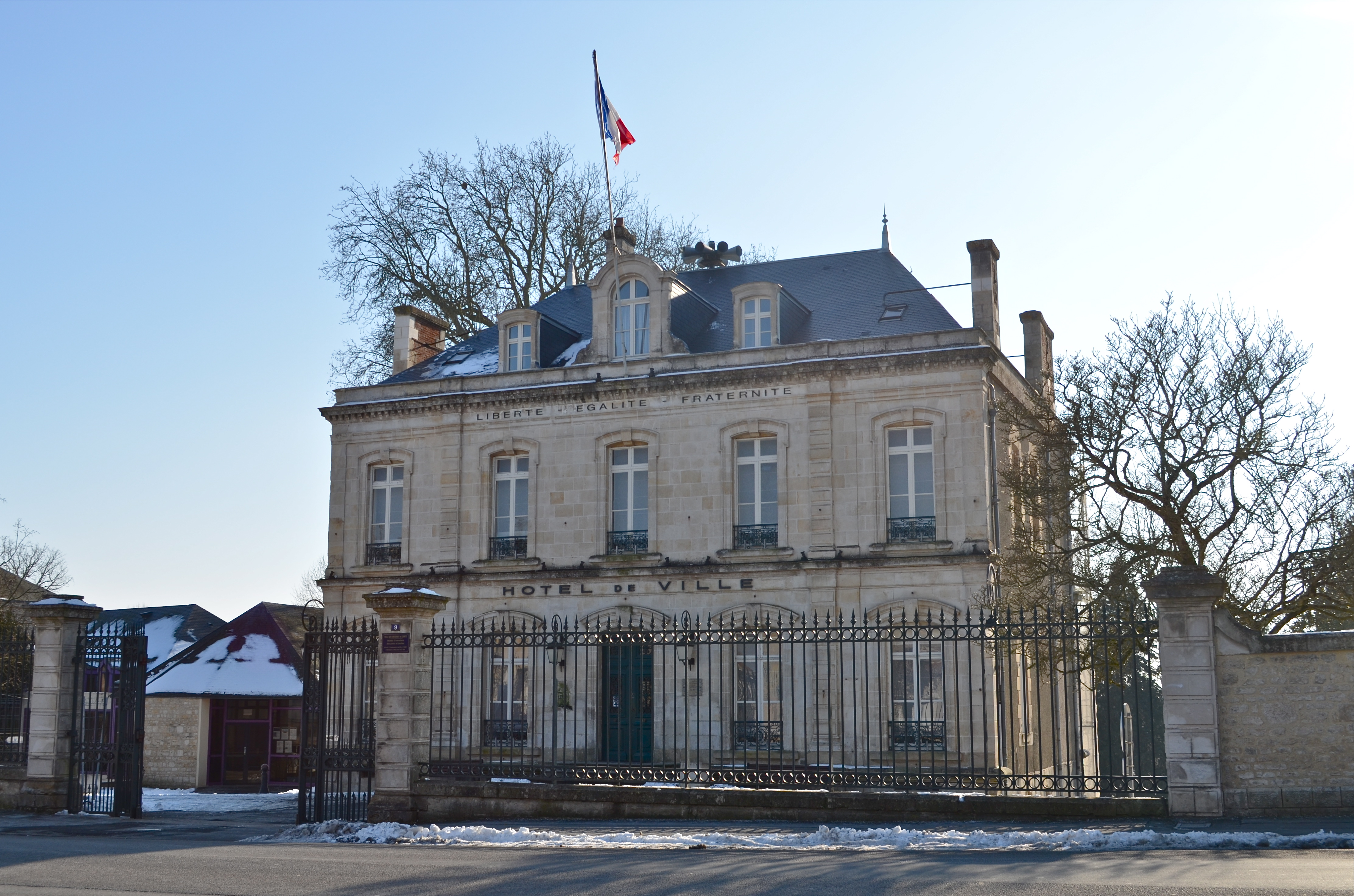 Fontenay-le-Comte city hall (Vendée)